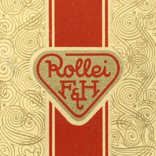 Original carton for a Rolleiflex camera, ca. 1930 Author: Holger.Ellgaard 14:38, 18 May 2008 (UTC) Year: 2008 Permission: yes